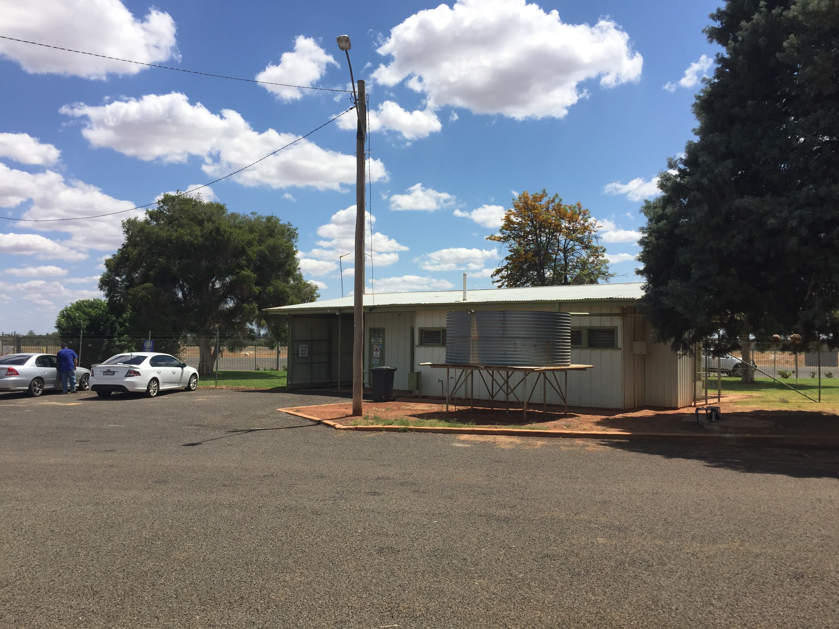 View of the Cobar airport building from the parking lot.